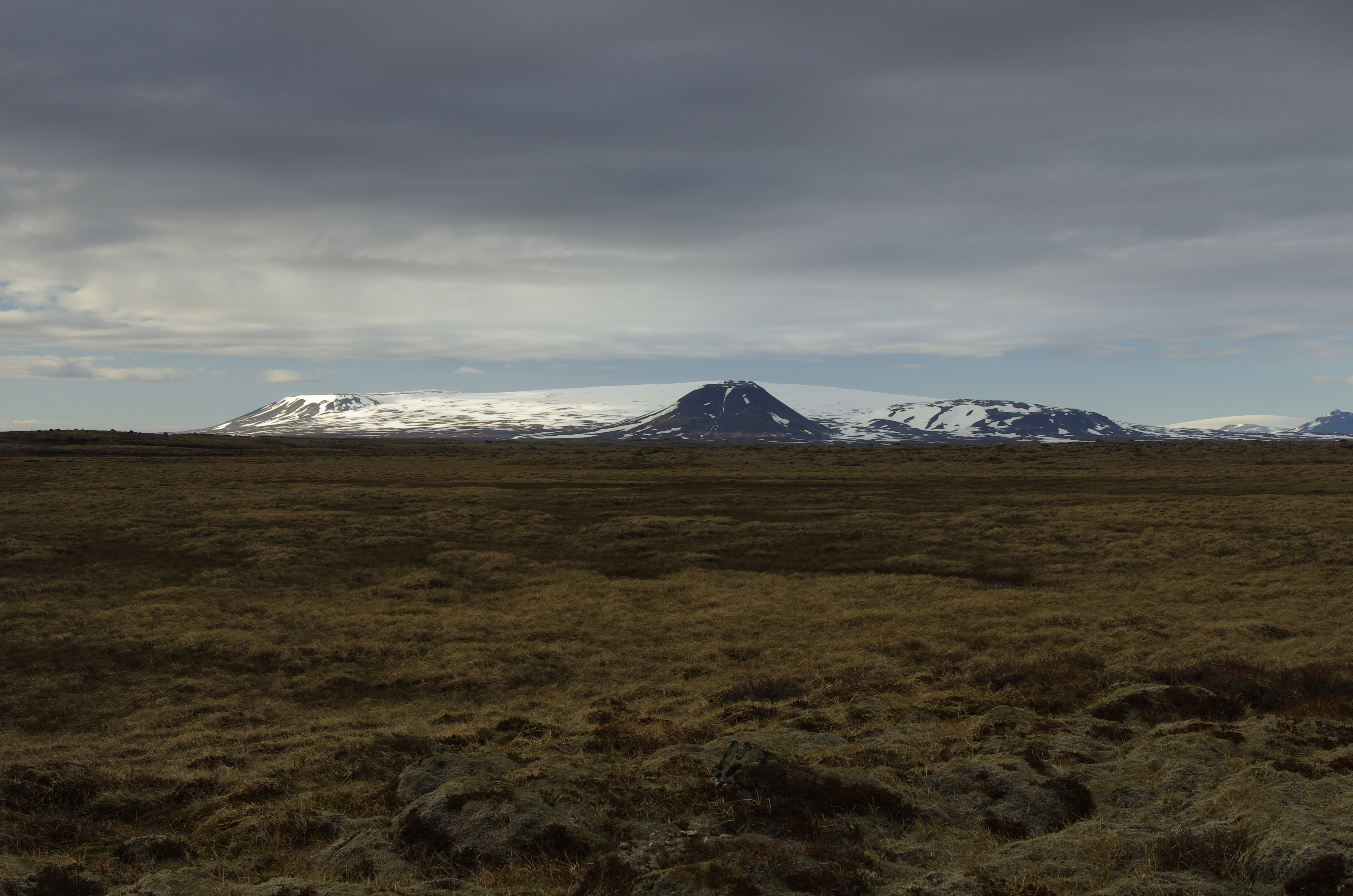 The view in Kaldidalur (Cold valley)